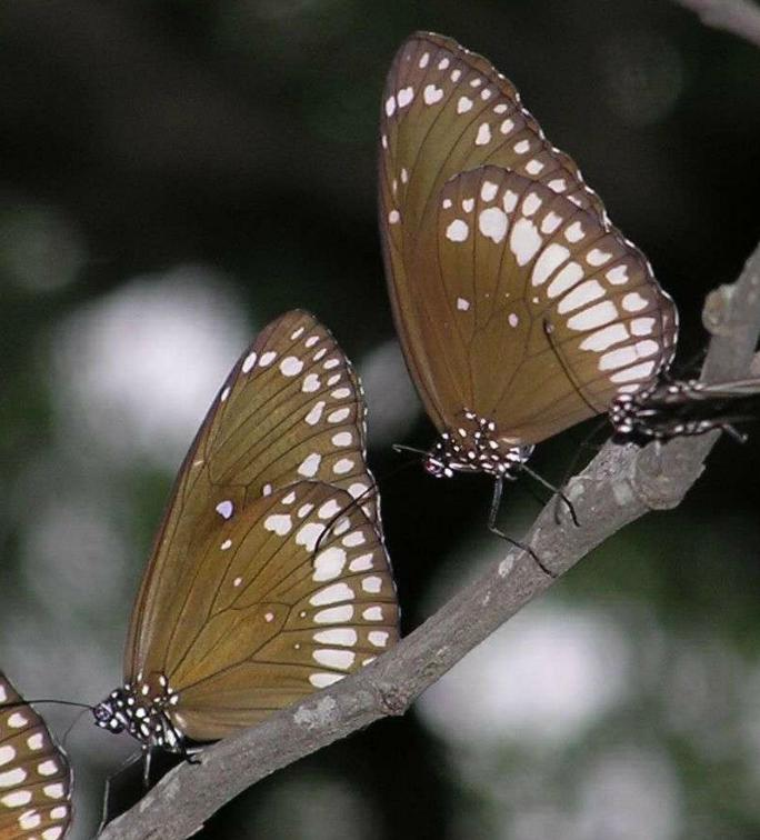 Common Indian crows (Euploea core) regularly migrate with other crows and tigers in South India. They have resident populations as well in Western Ghats, Plains and Eastern Ghats.